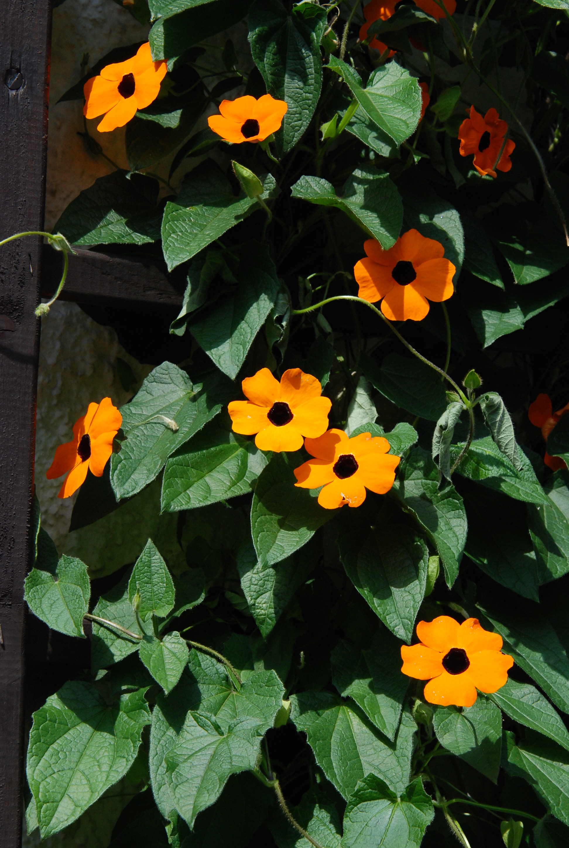 Black-eyed Susan